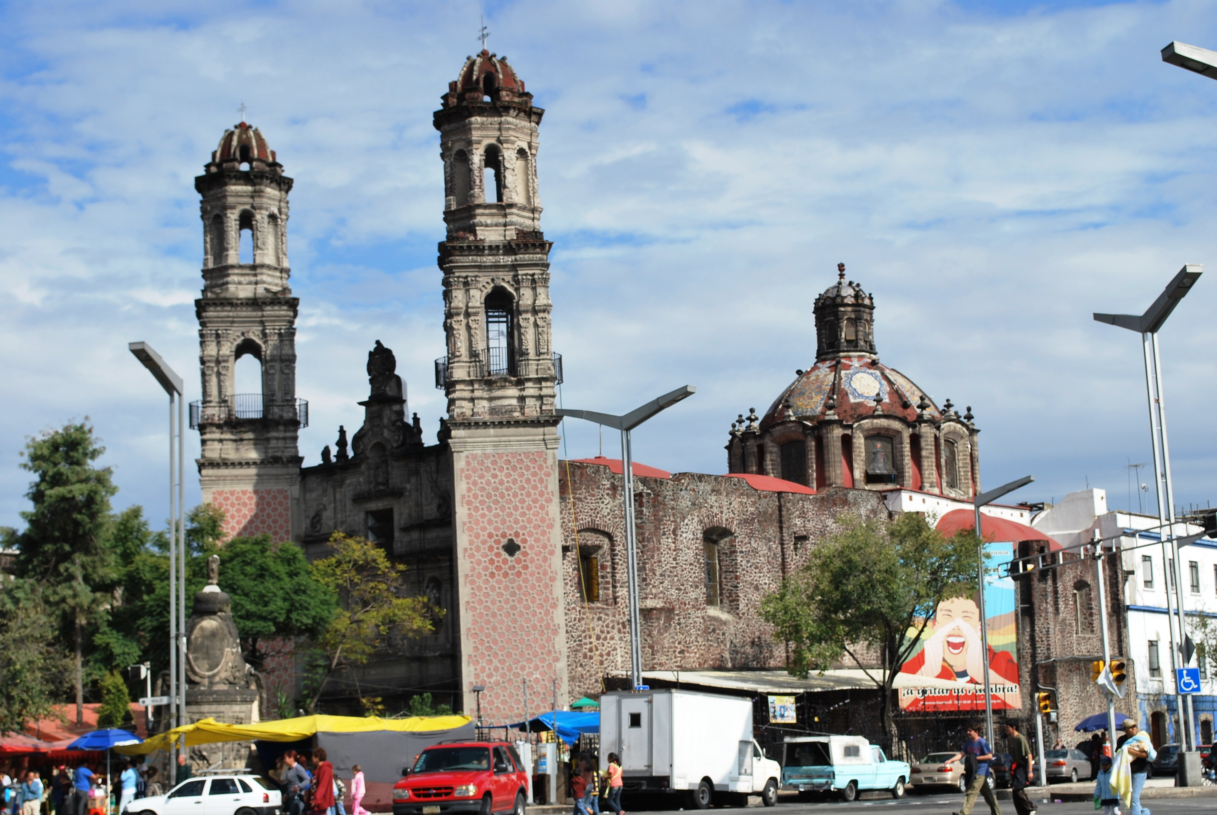 Church of San Hipolito on Paseo de la Reforma in Mexico City